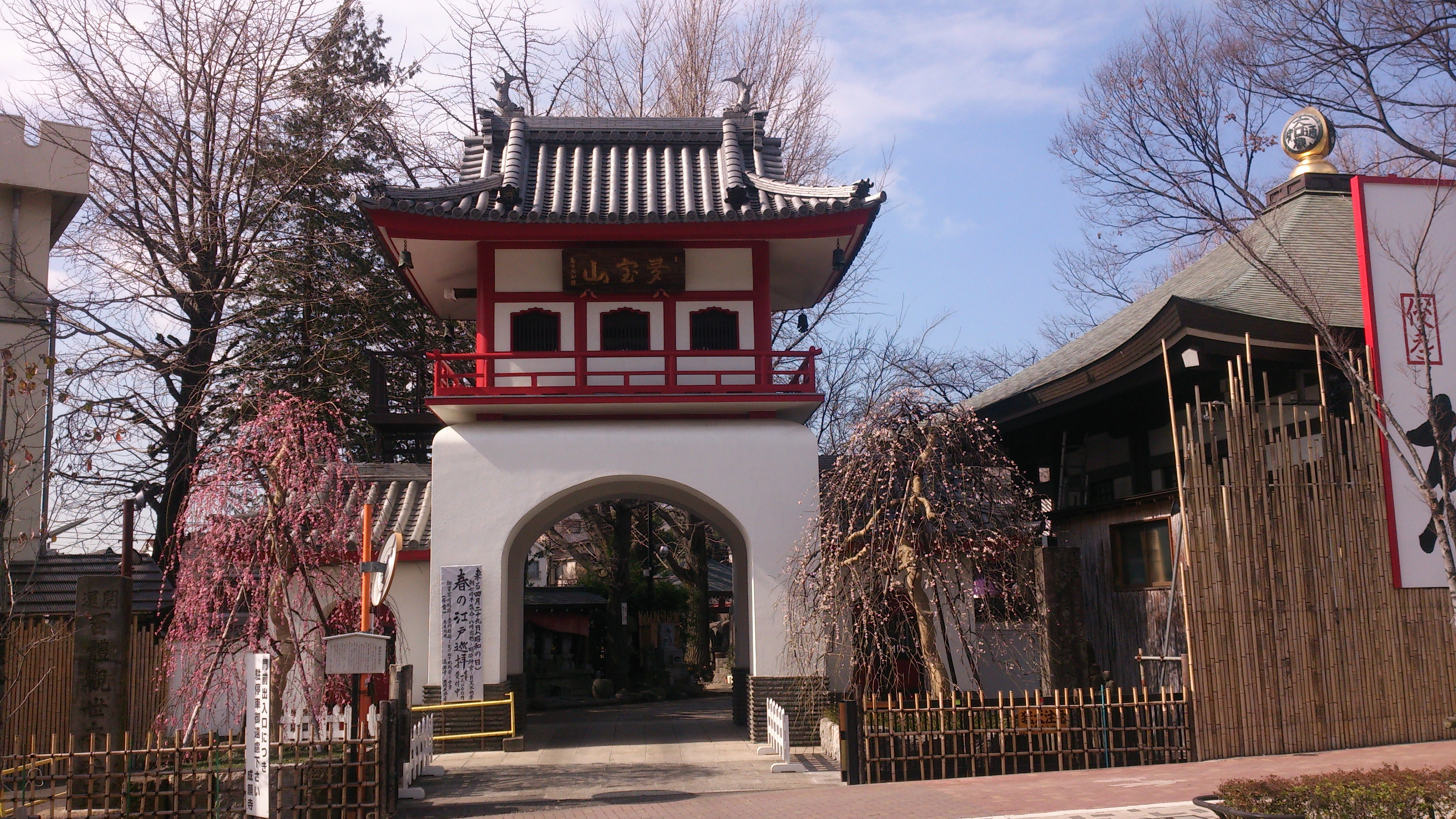 Tahozan Joganji temple in Nakano Ward, Tokyo, Japan